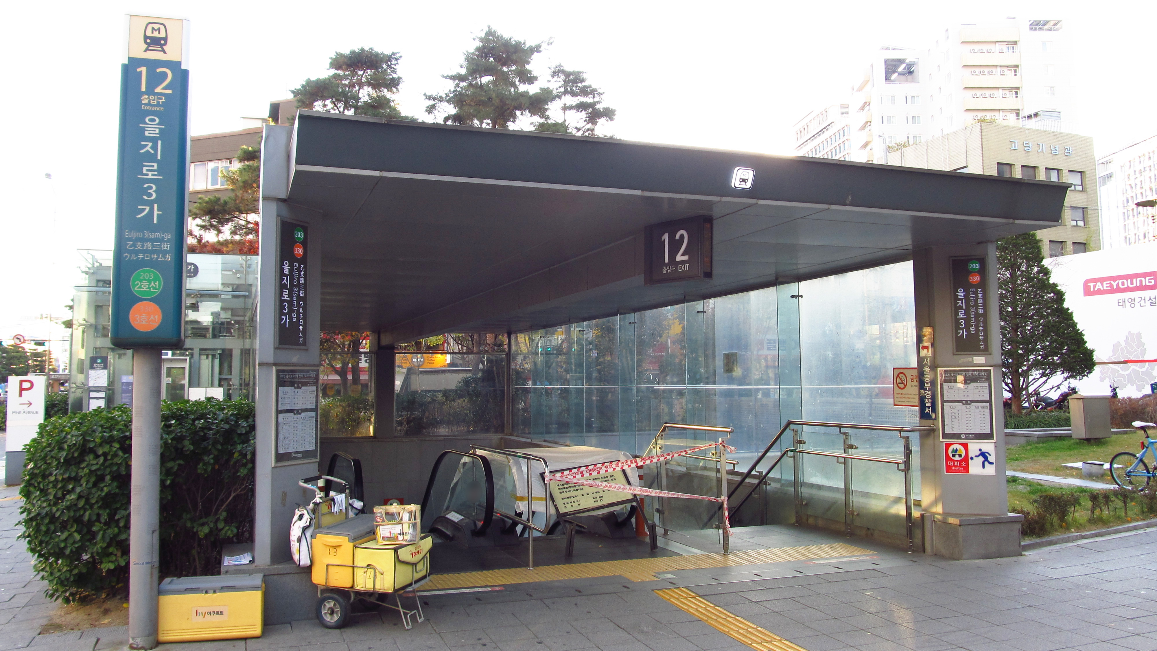 The no.12 entrance to Euljiro 3-ga Station on the Seoul Metro Line 2 and Line 3 in Jung-gu, Seoul, Republic of Korea(South Korea)